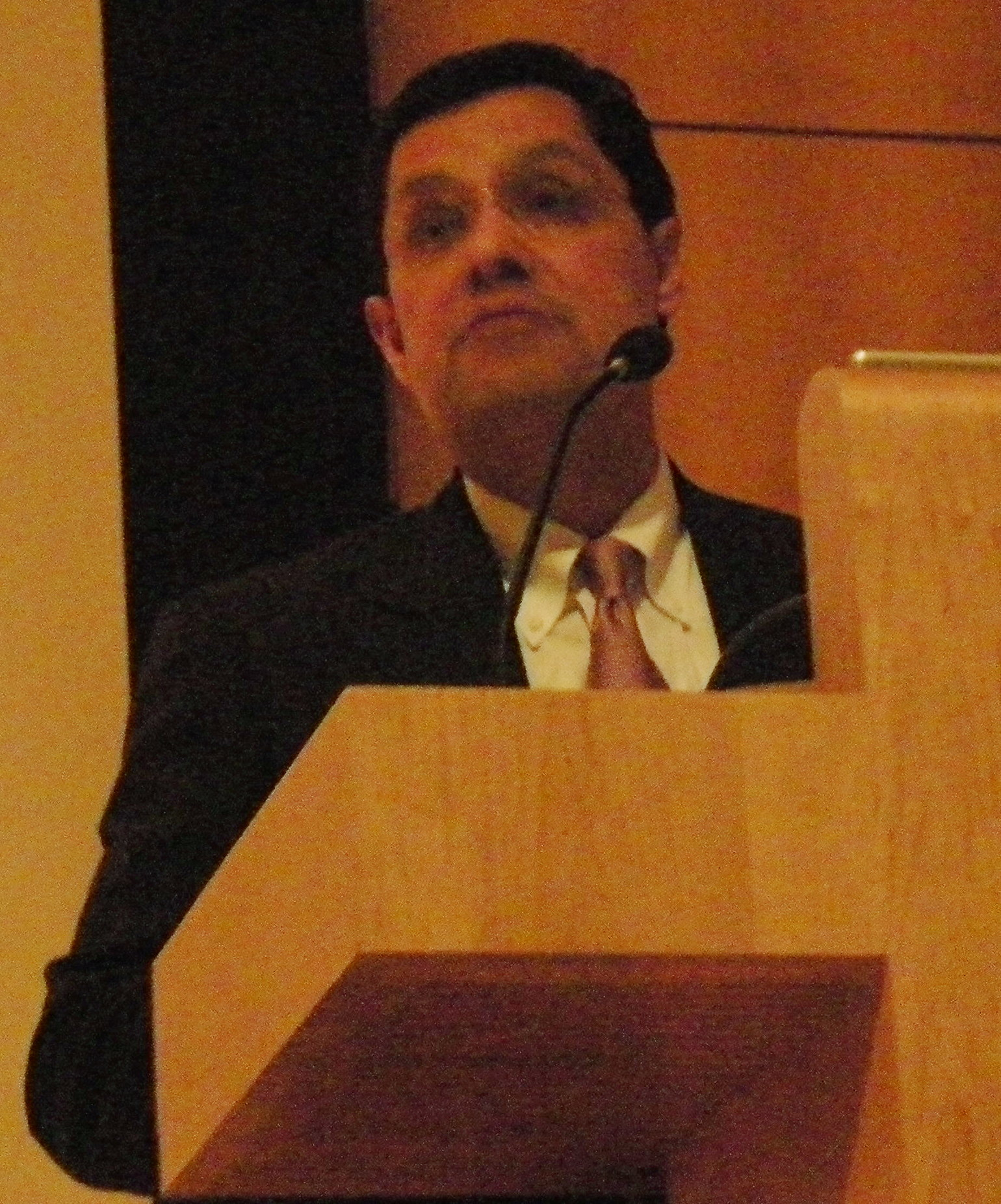 Luis Fraga, associate vice provost for faculty advancement, University of Washington, introducing Joy Williamson's 2008 Samuel E. Kelly Lecture at the auditorium of the Henry Gallery, University of Washington, Seattle, Washington. Kelly, after whom the series is named, was the first vice president of the U.W. Office of Minority Affairs (1970).